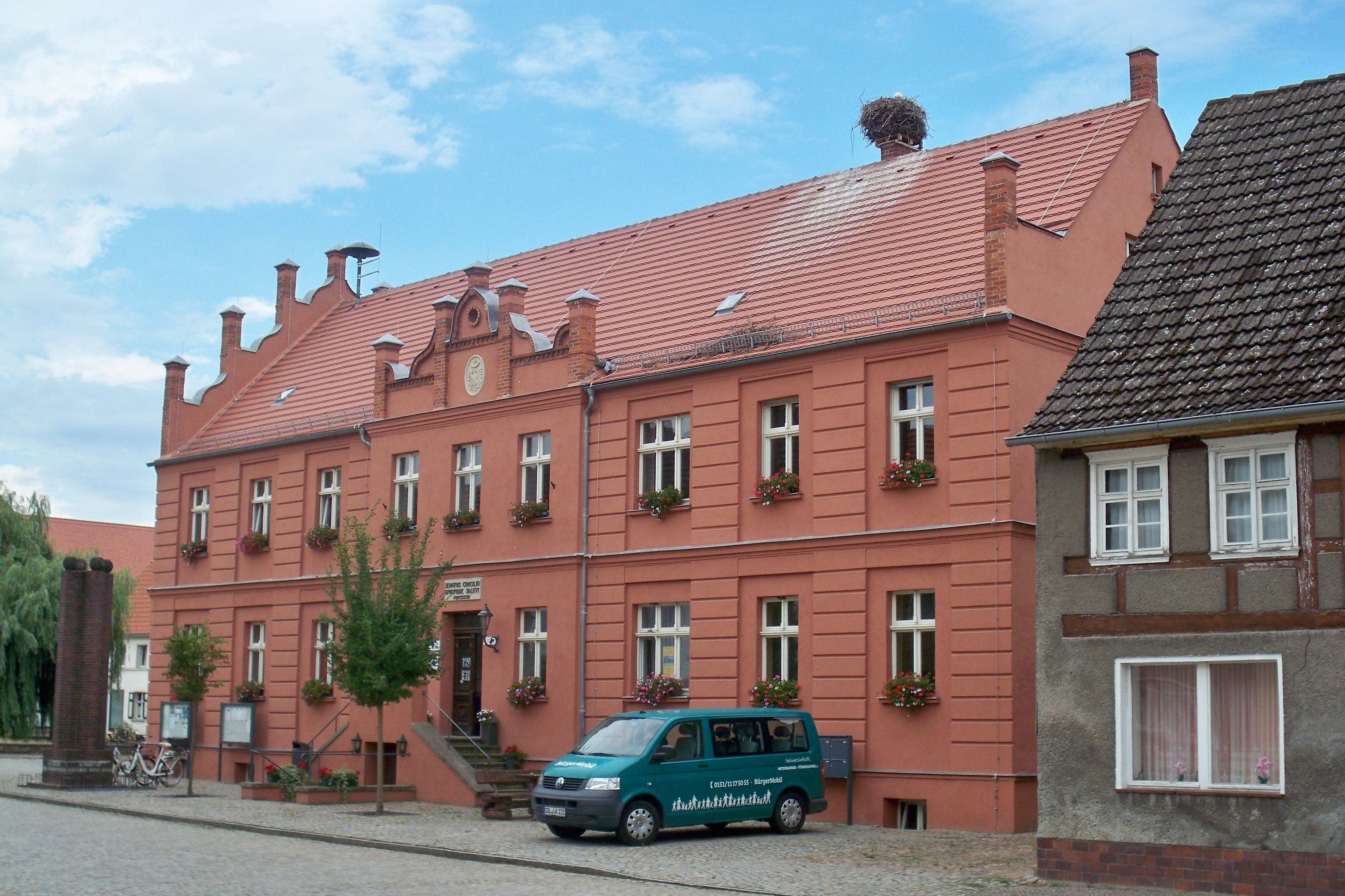 Werben (Elbe), Saxony-Anhalt, town hall